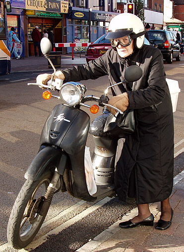 Cowley Road-Oxford Honda Sky SGX50